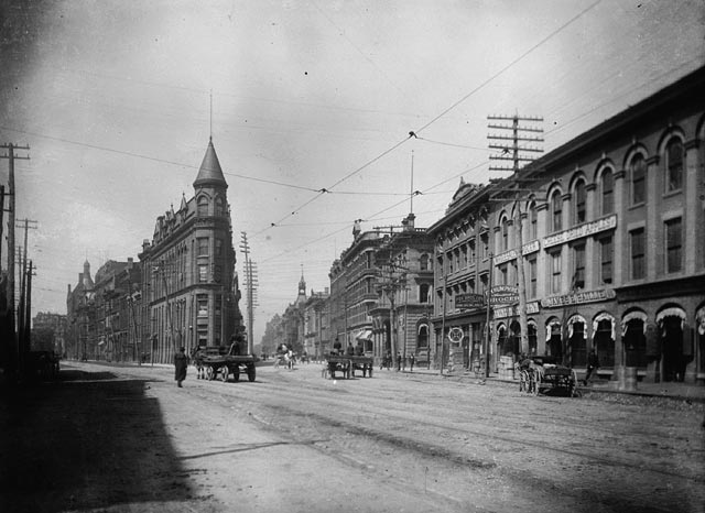 Corner of Front & Wellington Streets , Gooderham Building